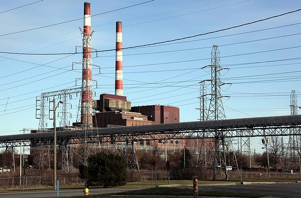 Trenton Channel Power Plant — seen from Elizabeth Park in Wayne County, Michigan.